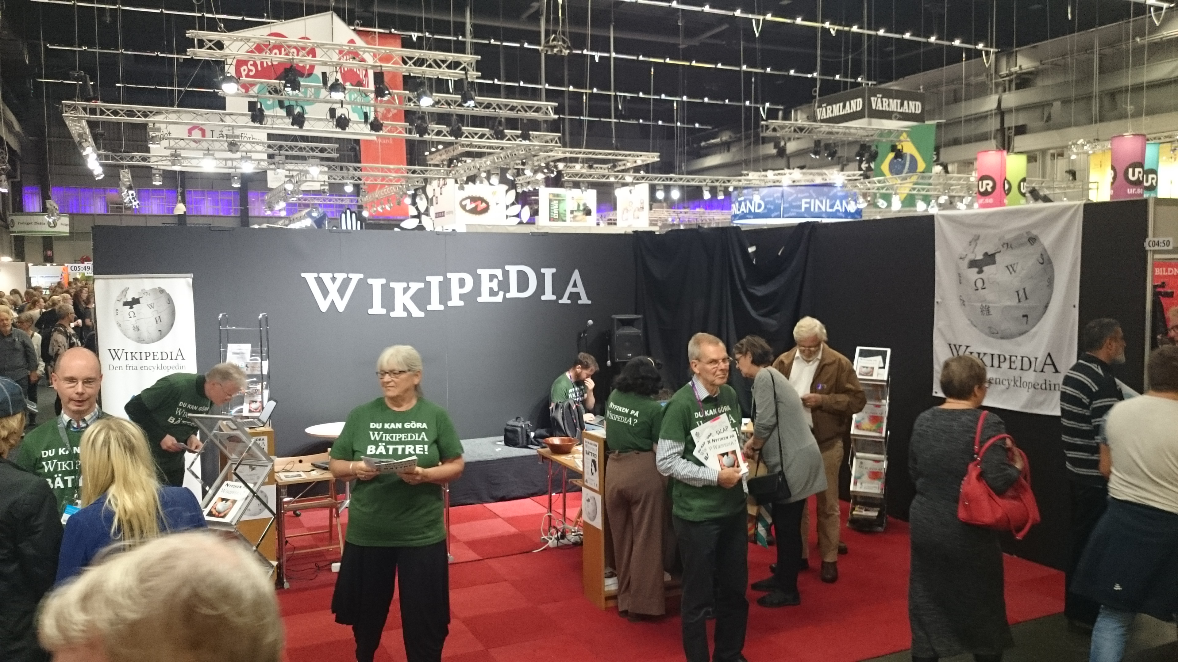 Wikimedia Sverige at Göteborg Book Fair 2016.